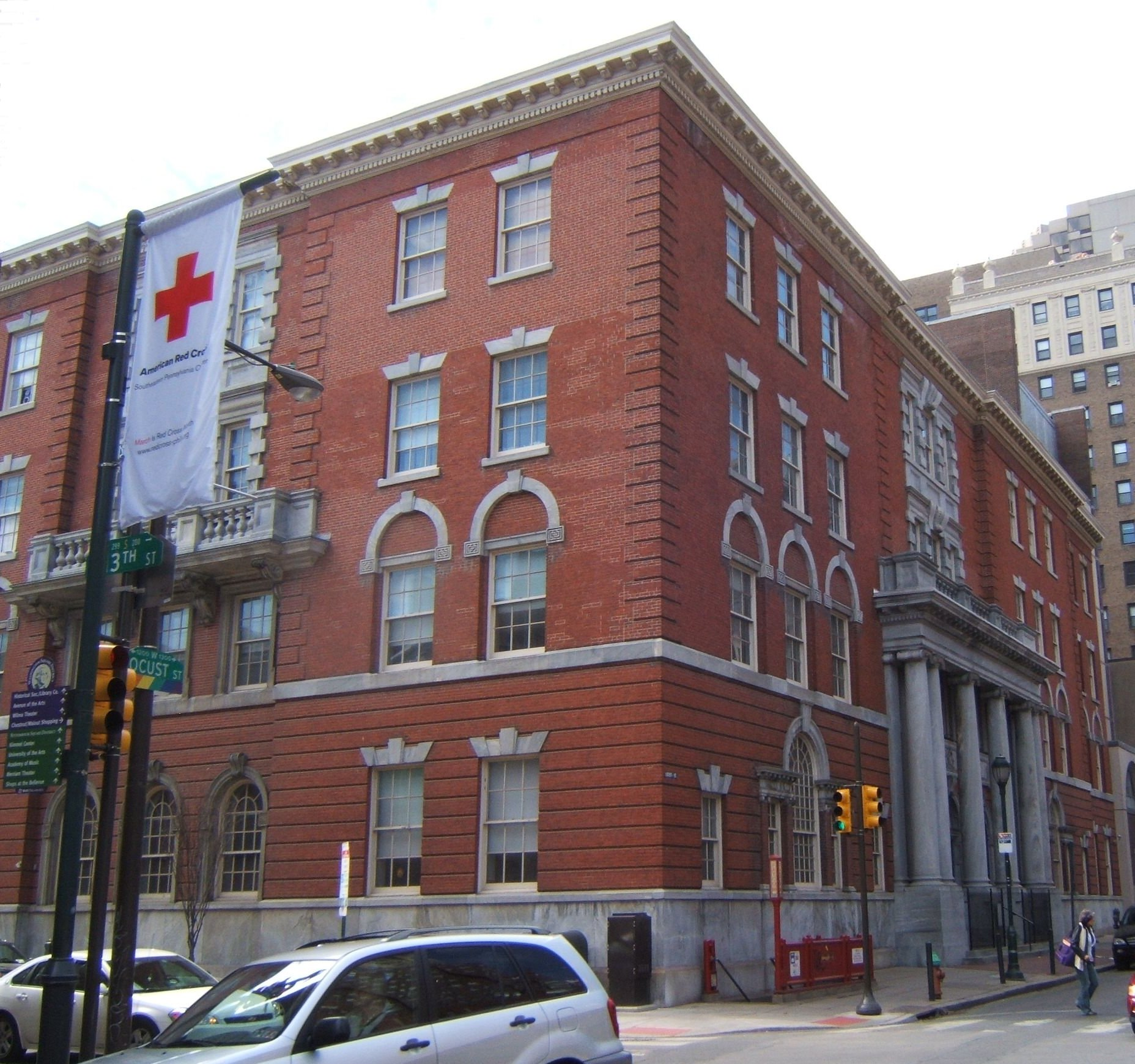 Historical Society of Pennsylvania, 1300 Locust Street, Philadelphia, PA 19107 Object location39° 56′ 52.44″ N, 75° 09′ 44.64″ W